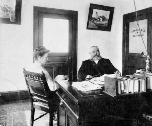 Photograph shows lawyer Albert F. Jones, who was a leading citizen of Oroville. Source: Meriam Library, California State University, Chico. ca. 1915